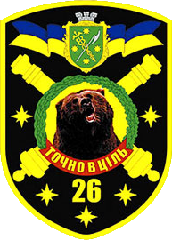 Shoulder sleeve insignia of the Ukrainian Army 26th Artillery Brigade